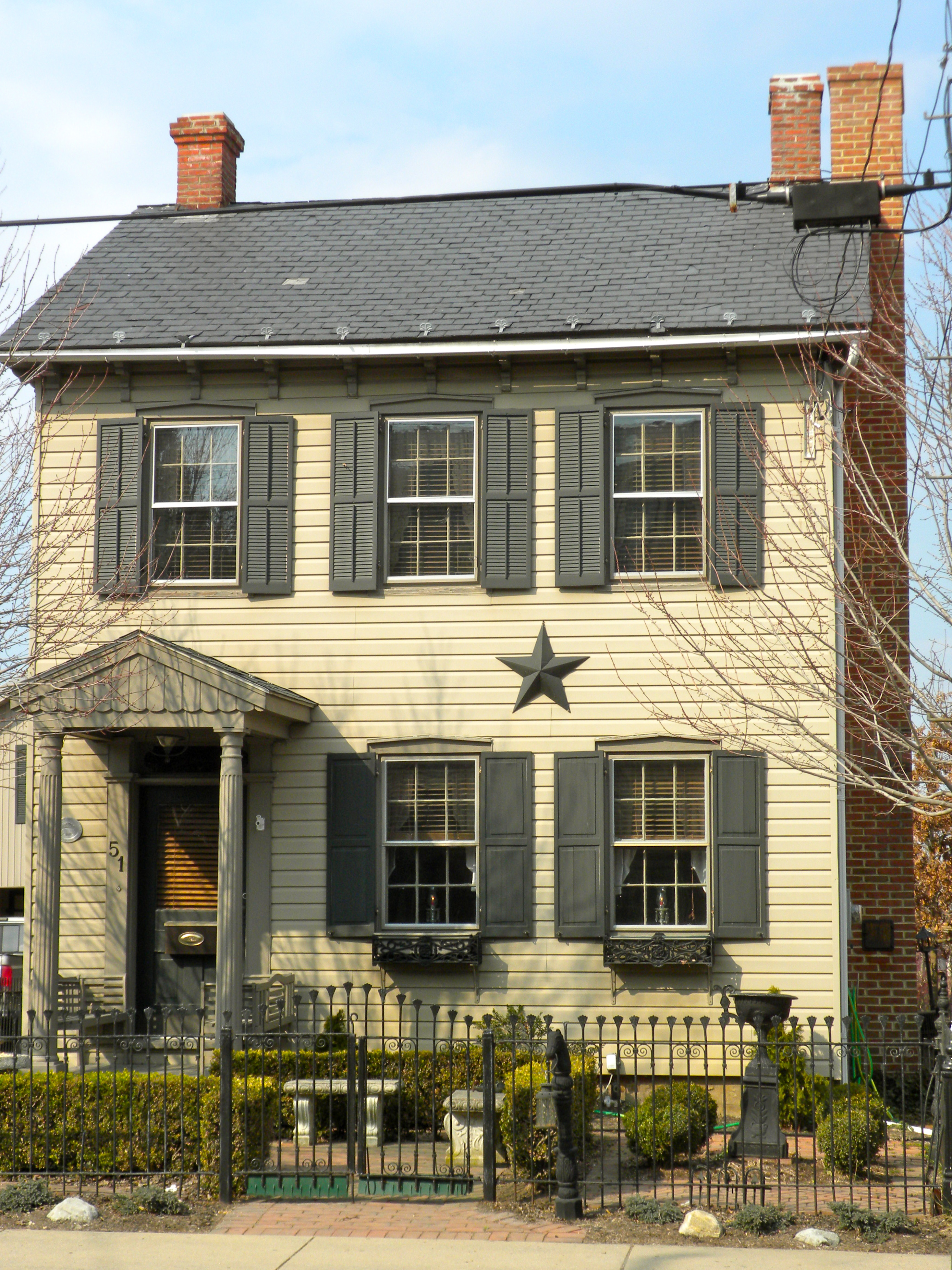 51 East Main St. in Strasburg, PA. 2 story frame residence, late 19th century. Strasburg is a Historic District on the NRHP, in Lancaster County